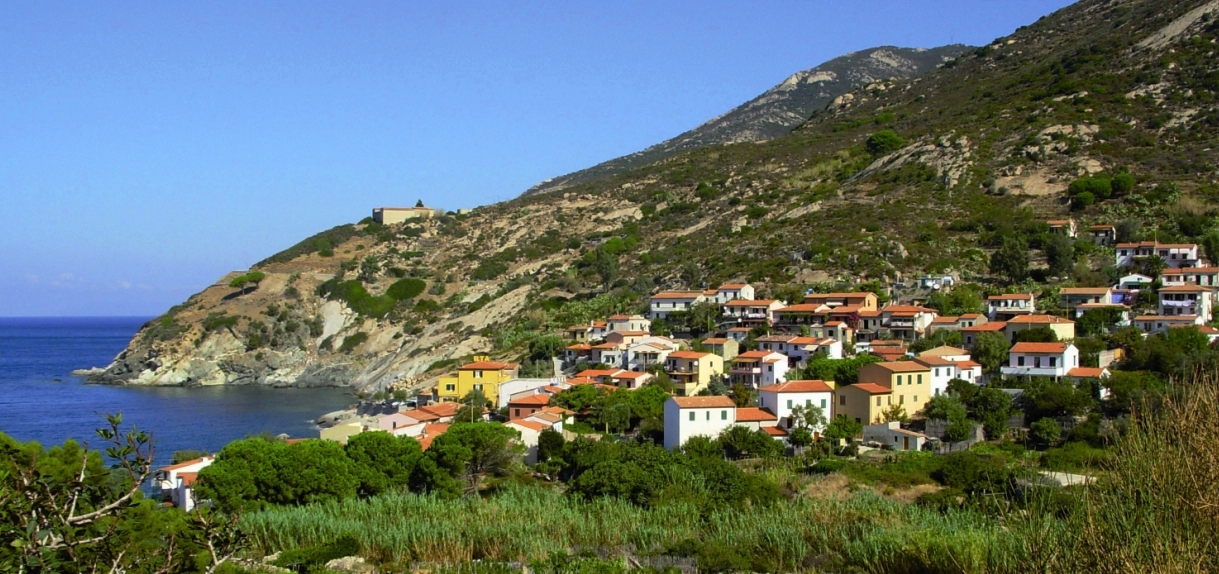 Il paese di Pomonte (isola d'Elba)